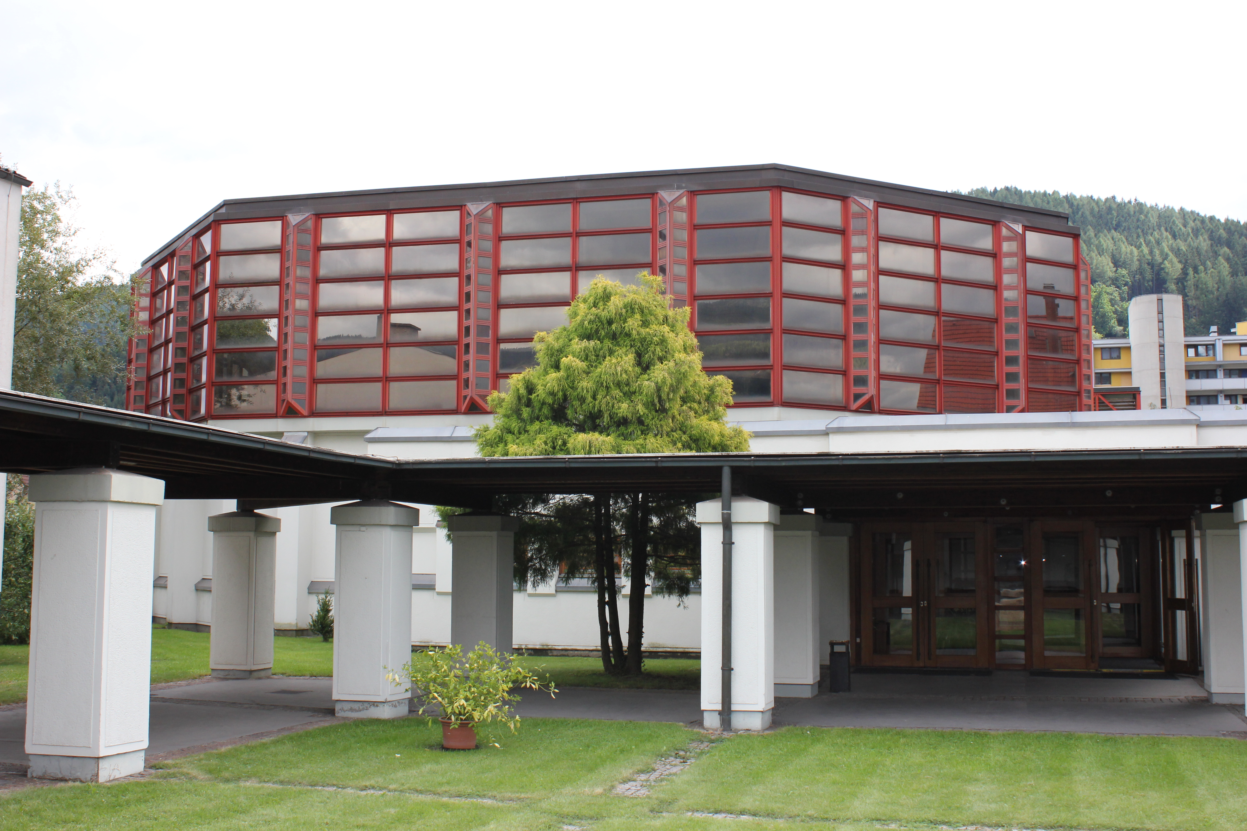 Kath. Pfarrkirche Hl. Geist